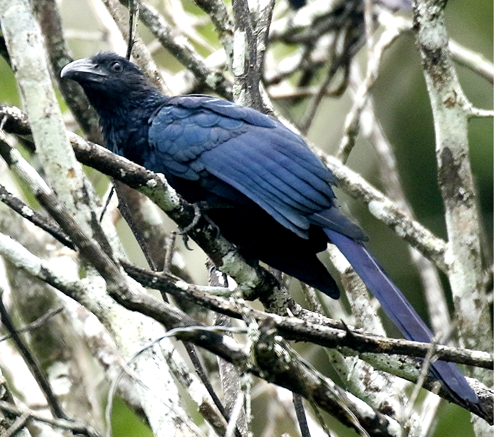 Canopy Camp Darien, Panama